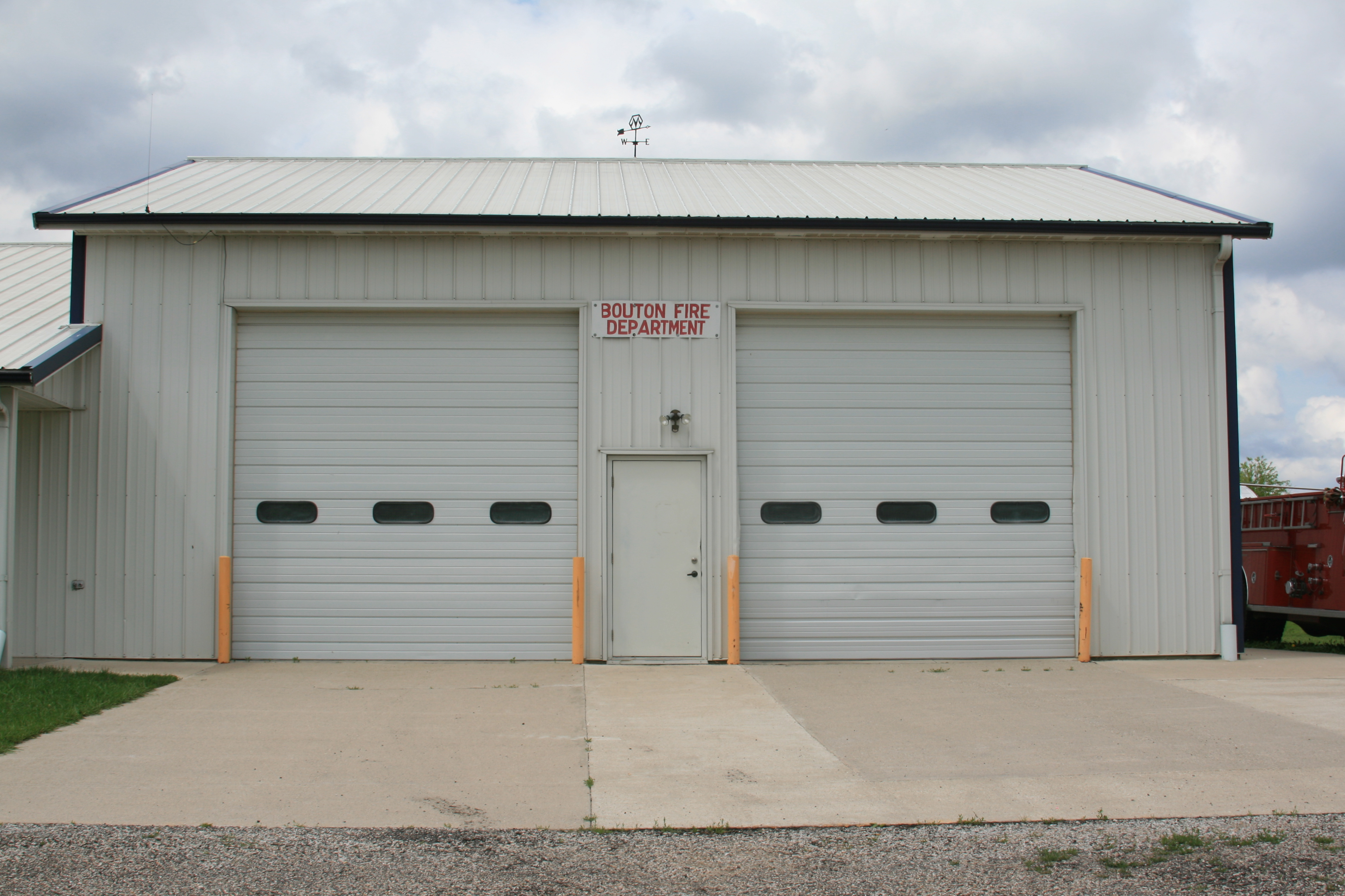 Fire station in Bouton, Iowa